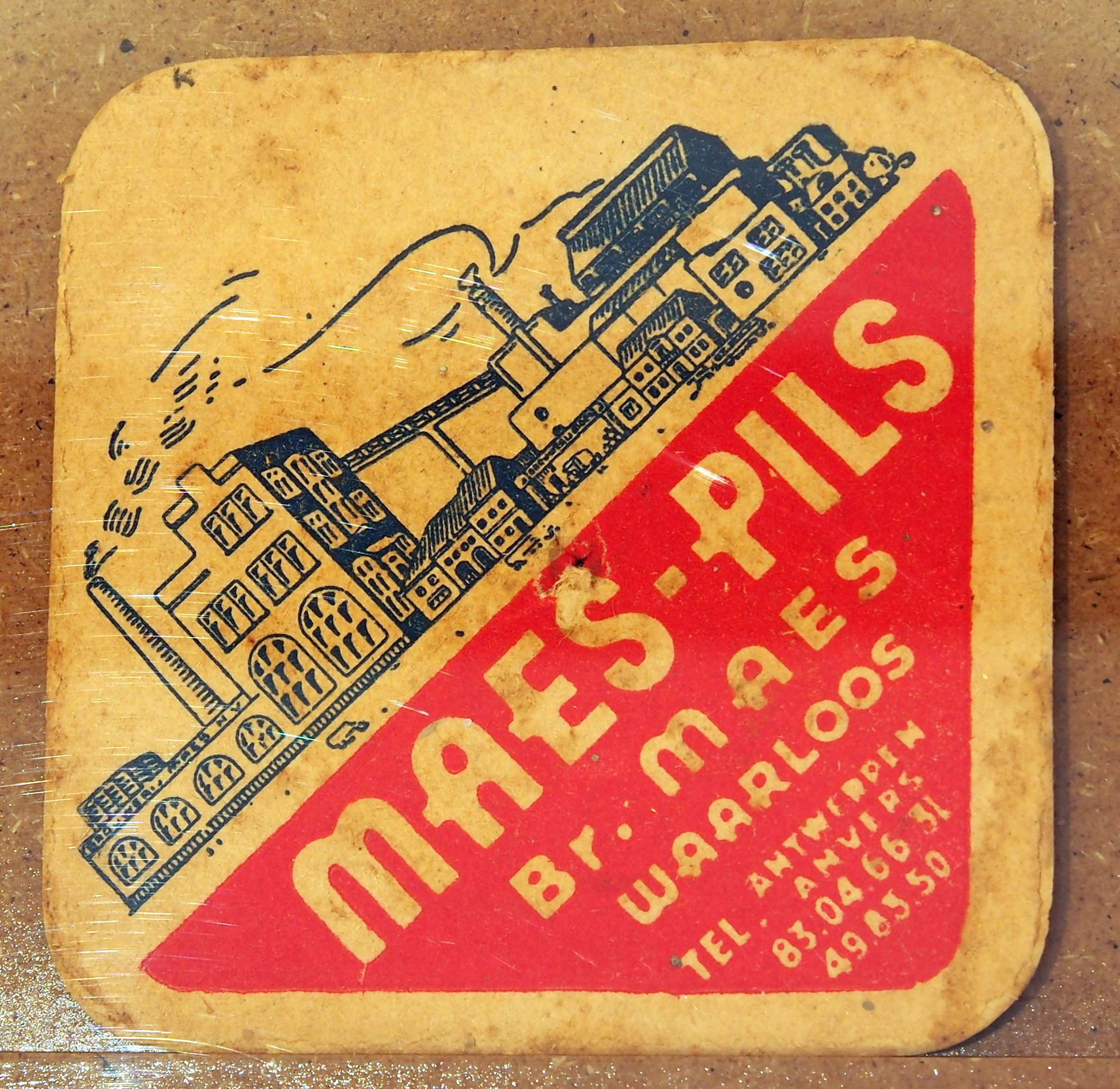 Maes-Pils. (Photographed through glass.)